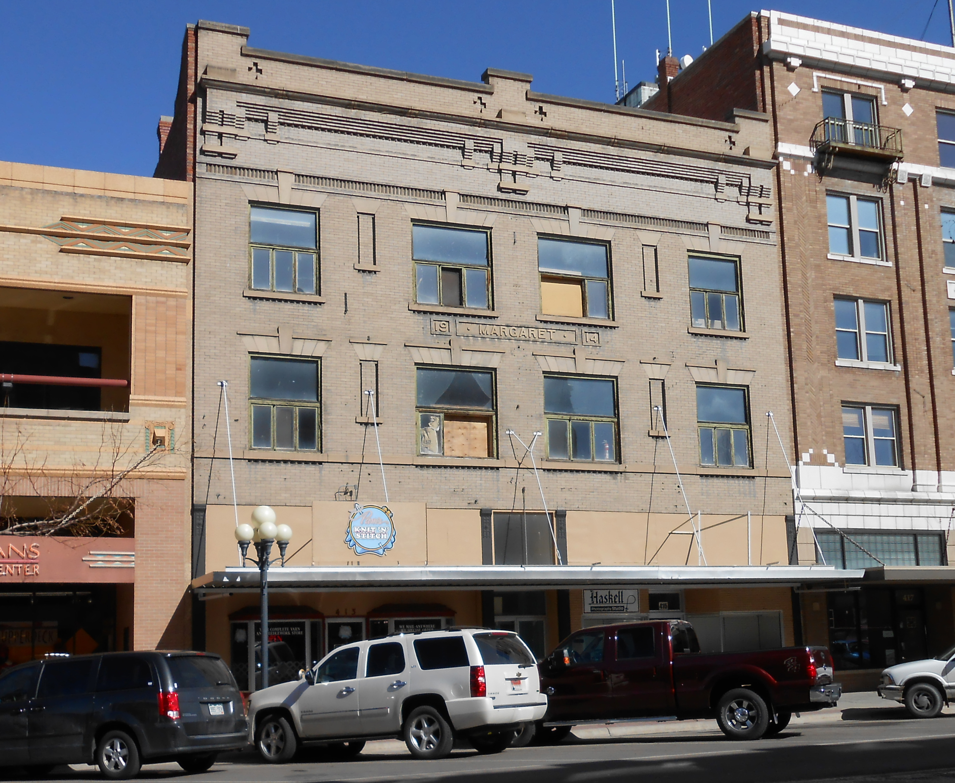 Margaret Building, aka The Margaret Block, 413-415 Central Avenue, Great Falls, Montana Part of Central Business Historic District